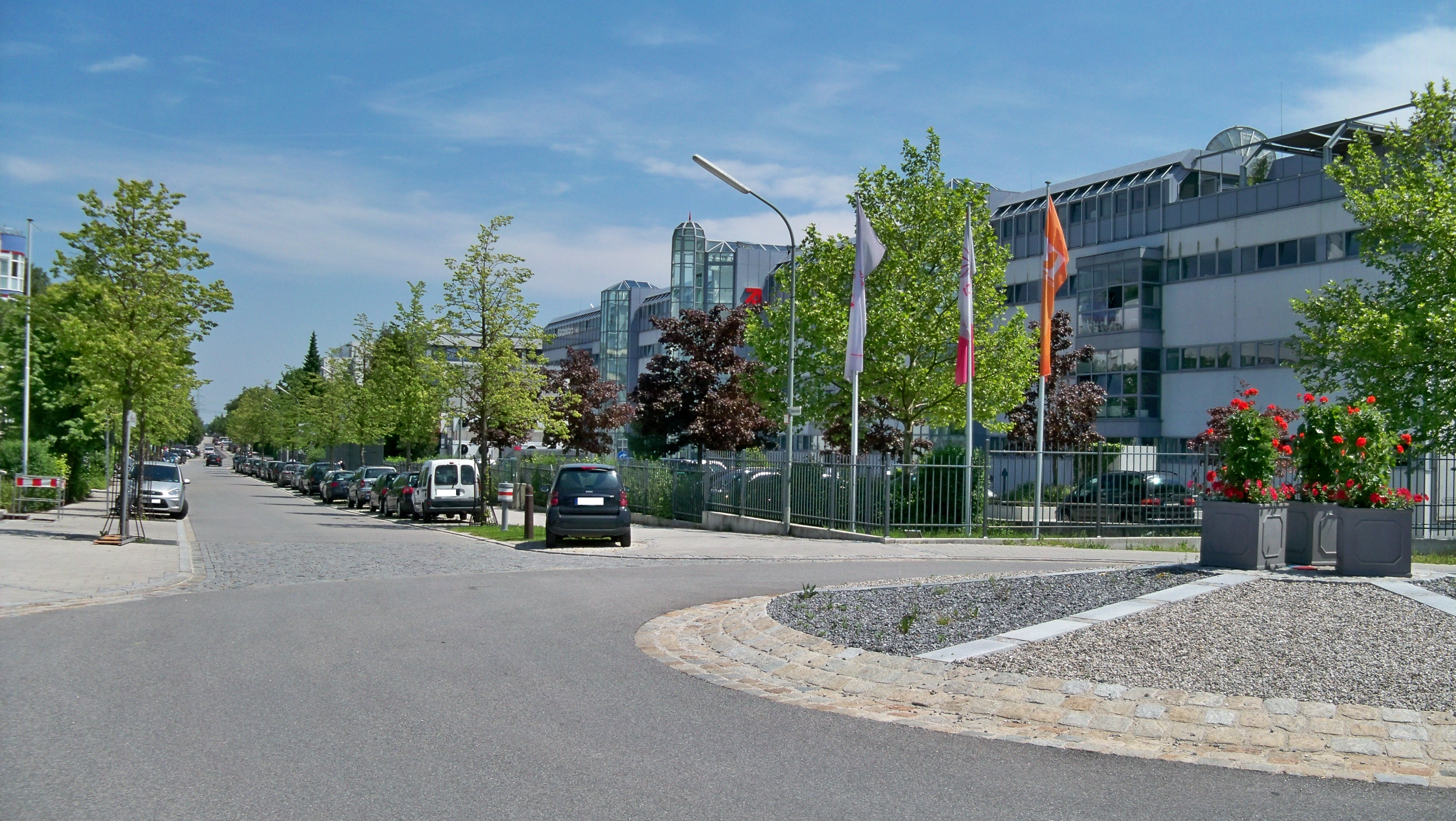 ProSiebenSat.1 Media in Unterföhring, Germany.